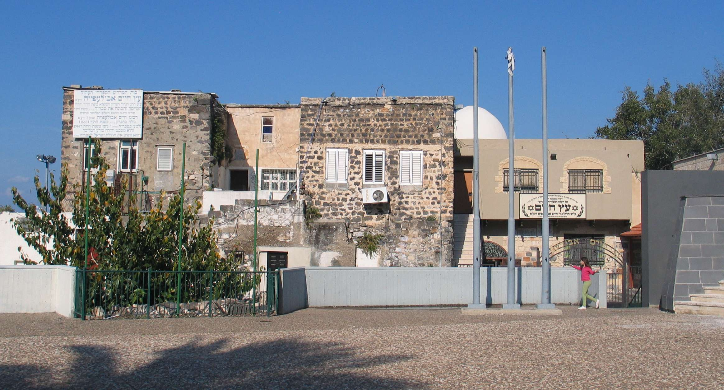 Tiberias, Israel - Ets Hayim synagogue.